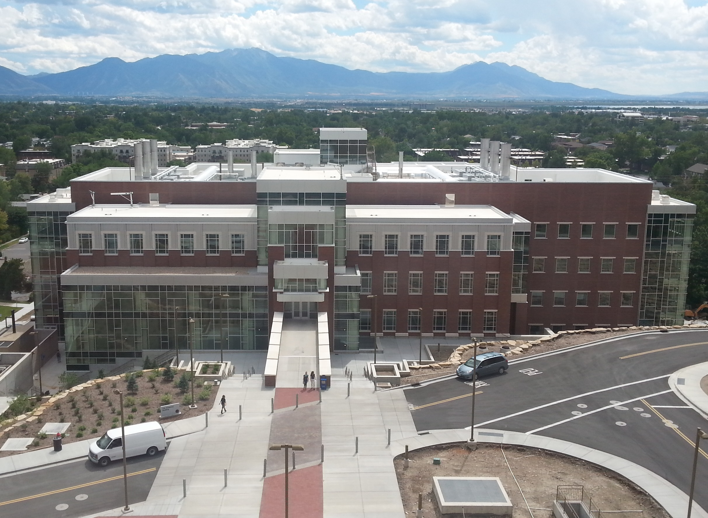 A photo of the Life Sciences Building at Brigham Young University.